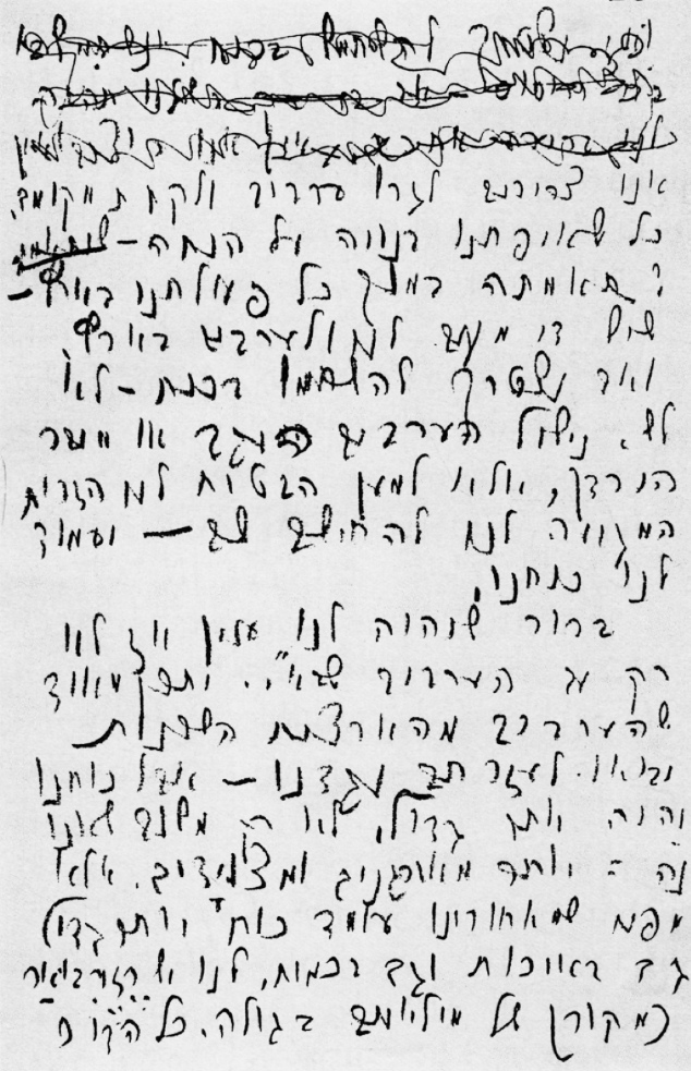 Page from David Ben-Gurion's letter to his son, 5 Oct 1937, now in the IDF archives (